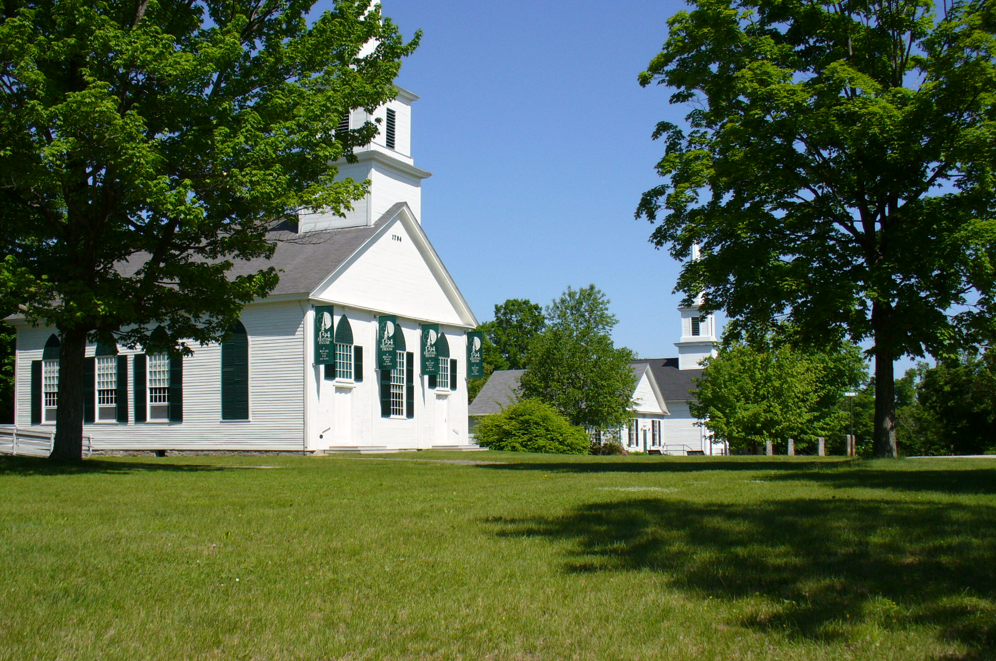 Another view of the New Salem common The New Salem Town Common (village green) in the center of the New Salem Historic District, Massachusetts - the location of William Stacy's patriotic words. Photo date: May 2007. This photograph was taken and provided by Mr. Henry Cramer. Mr. Cramer has given permission for this image to be shared and used under the terms of the “Creative Commons Attribution-ShareAlike” license, the Creative Commons license. ColWilliam 22:59, 22 June 2007 (UTC)